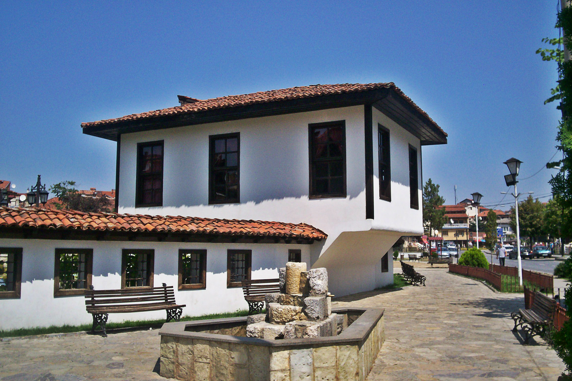 The House of the League of Prizren today.